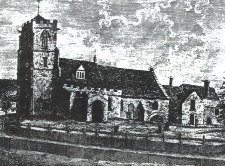 St. Mary's Church, Aldridge, England, depicted before 1800.